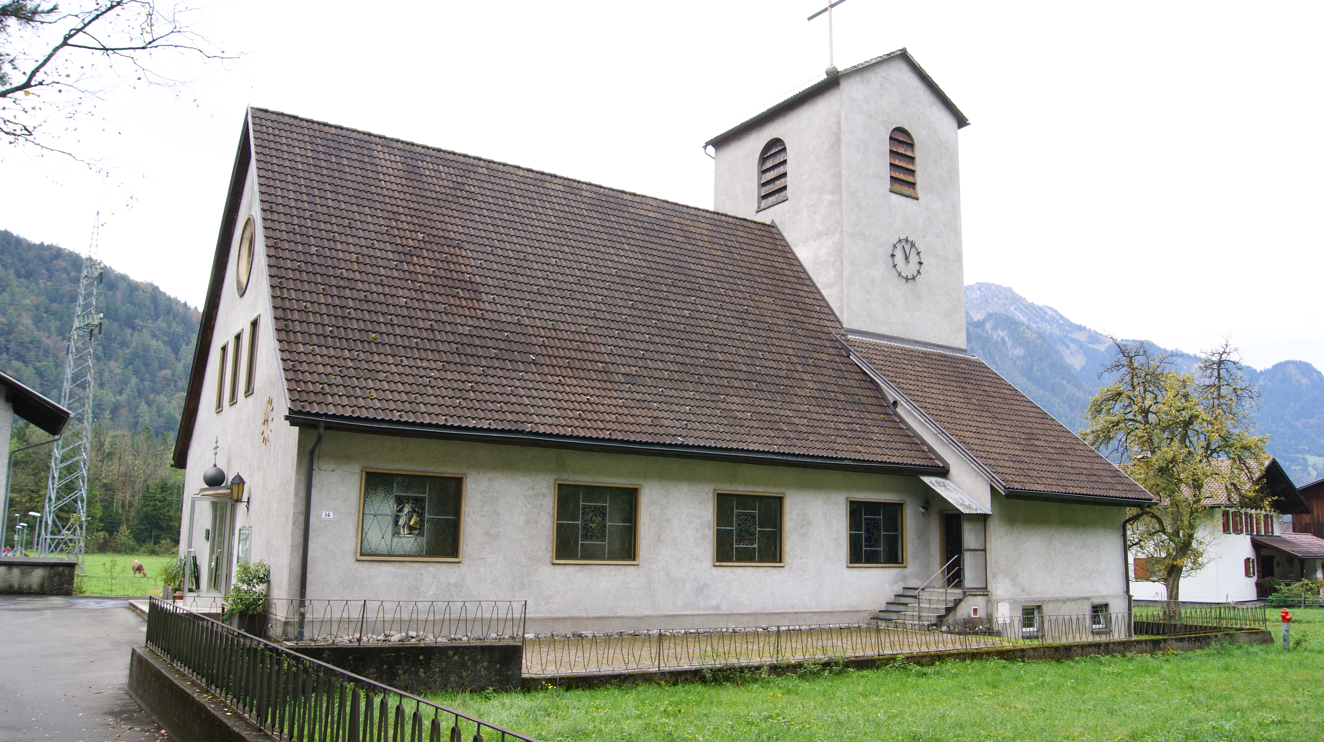 Parish Bings, Municipality Bludenz, Vorarlberg, Austria. View from northwest.